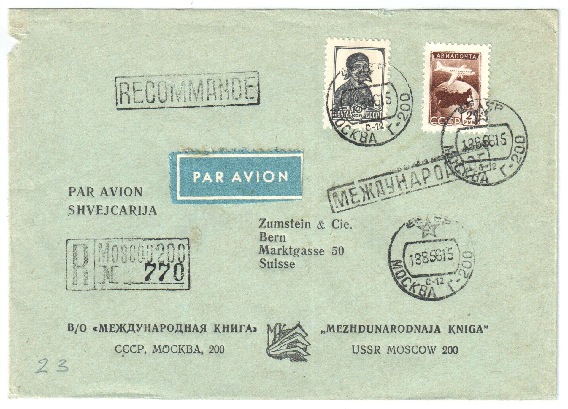 USSR 1956-08-18 registered airmail cover sent from Mezhdunarodnaya Kniga in Moscow to Zumstein & Cie, Bern that produces the Zumstein catalog. Franked with two USSR definitives: 10k 1953 worker issue (Mi. 677II) and 2r passenger airplane, airmail stamp issue of 1955 (Mi. 1761). Correct rate for international registered airmail 2.10R. Catalogue: Mi. 677II and 1761, CPA 557 and 1816.